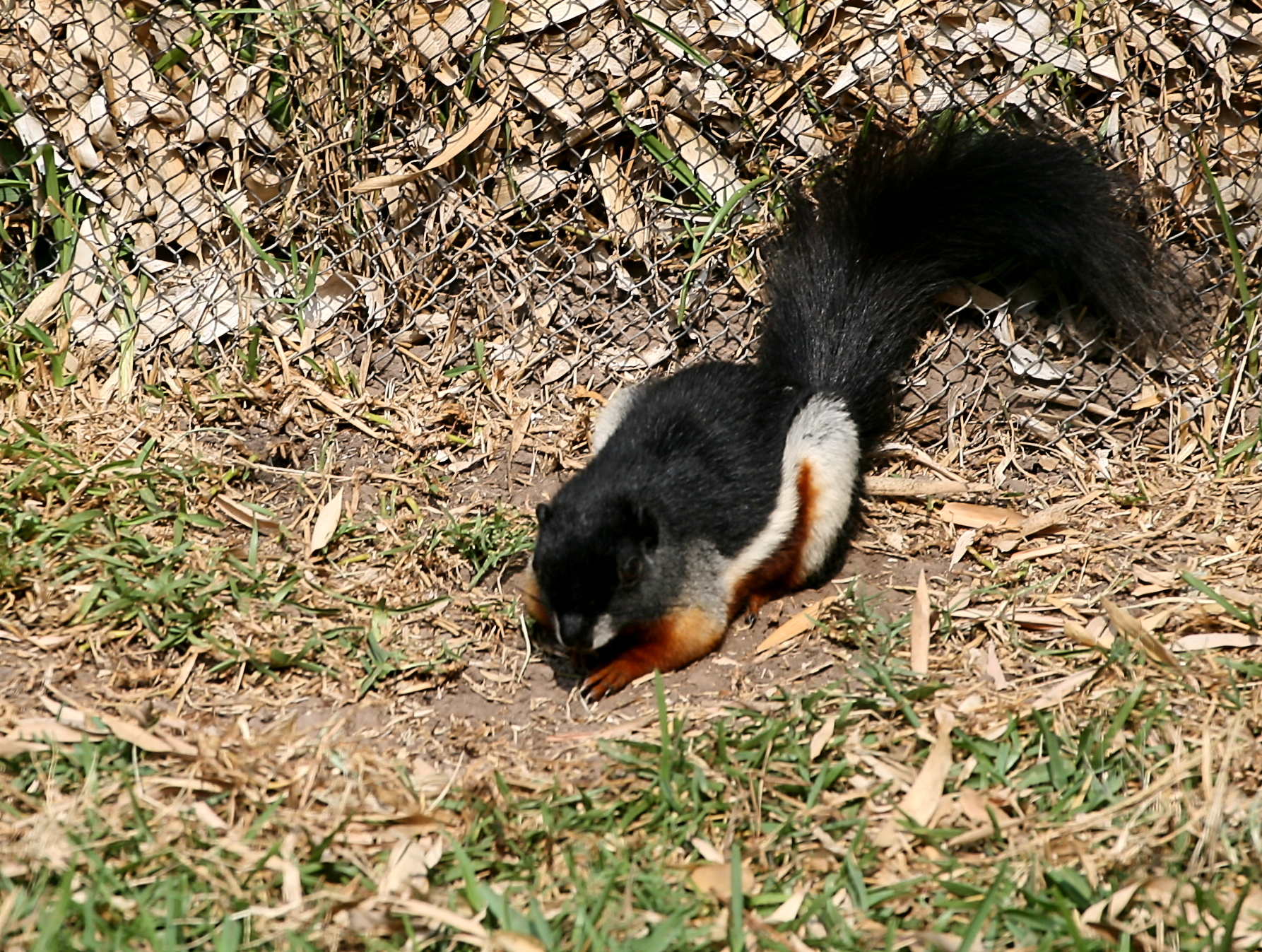 Prevost's Squirrel (also known as Asian Tri-colored Squirrel) at Temaiken Zoo, Argentina.